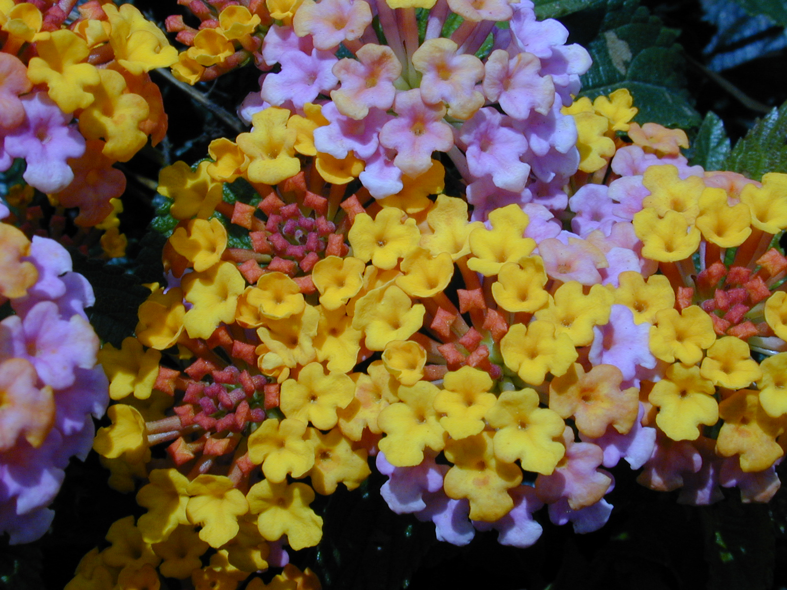 Lantana camara (flowers). Location: Maui, Kula